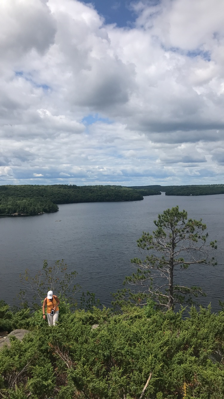 Picture of the lake off a cliff